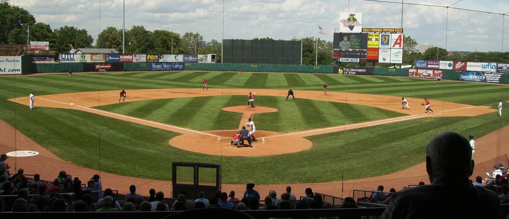 Dale and Thomas Popcorn Field at Veterans Memorial Stadium during a game between the Cedar Rapids Kernels and the Quad Cities River Bandits. Photographed by User:Iowahwyman on June 22, 2008.